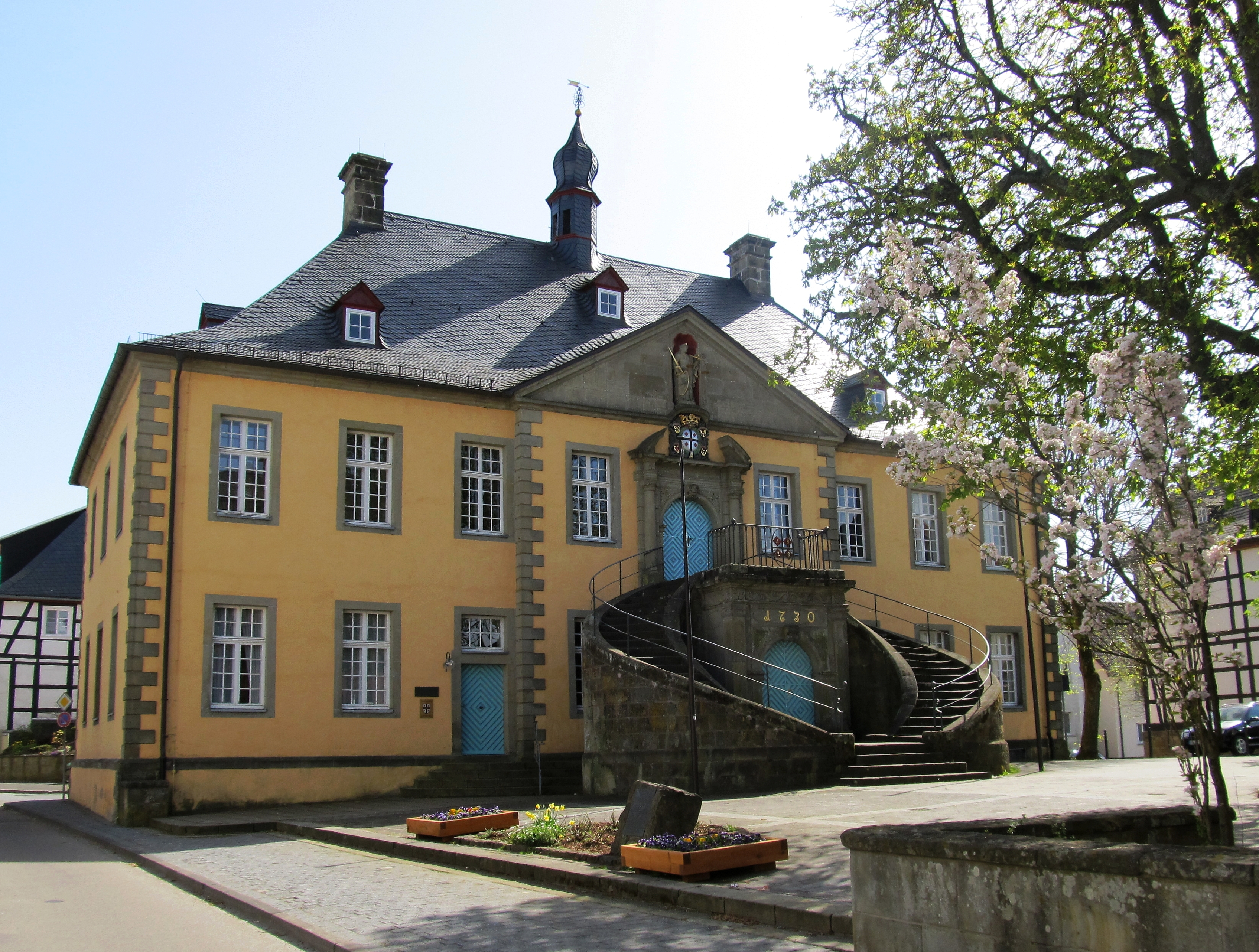 This is a photograph of an architectural monument., no. 23 in Rüthen (Germany), Anno 1730, Erbauer Michael Spanner